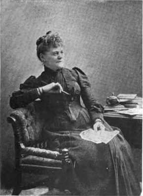 Lizzie P. Evans-Hansell